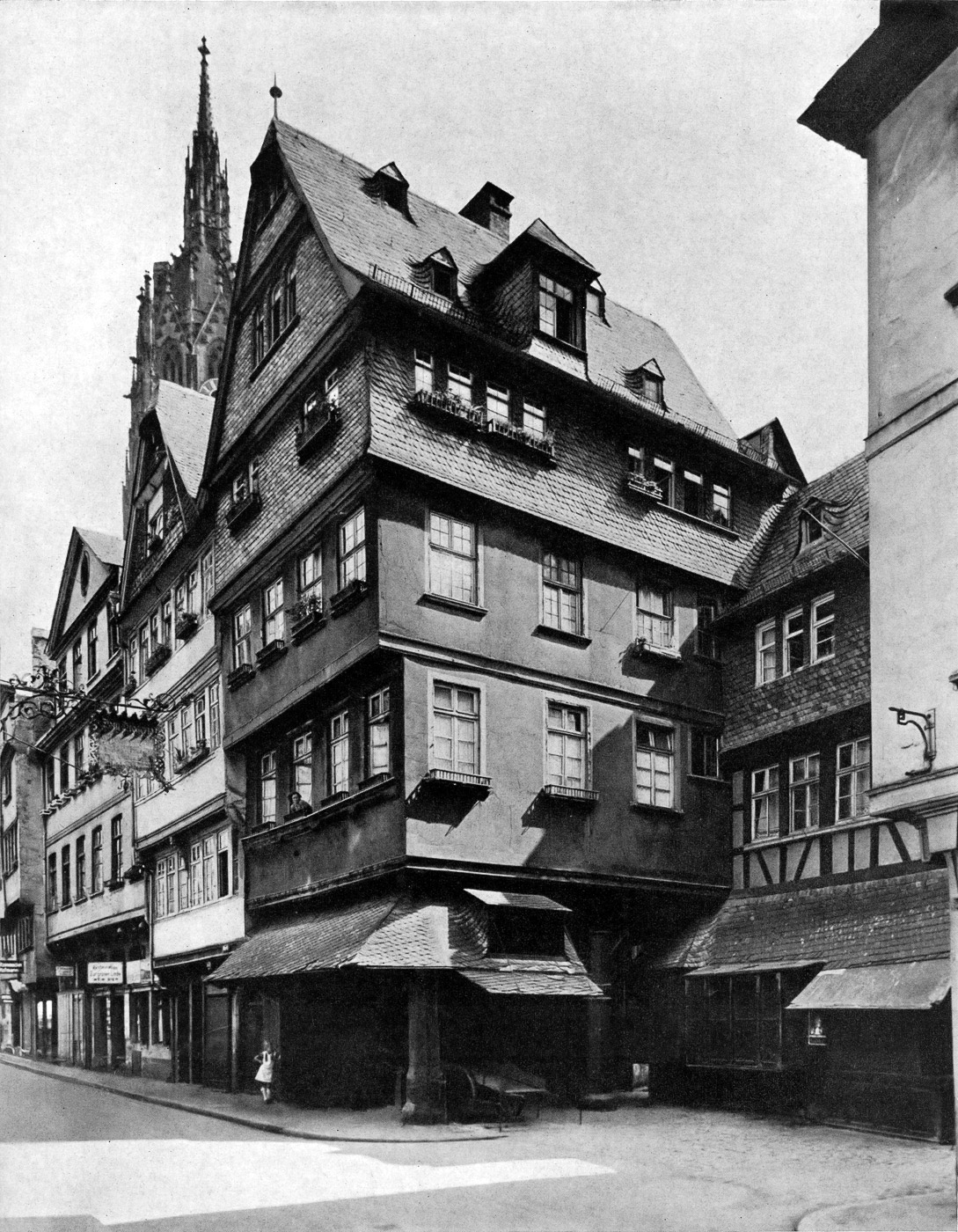 Neues Rotes Haus (New Red House, center of the image) and Altes Rotes Haus (Old Red House, left of it in the image respectively to the east of it) at the Markt (Market) as seen from the northwest